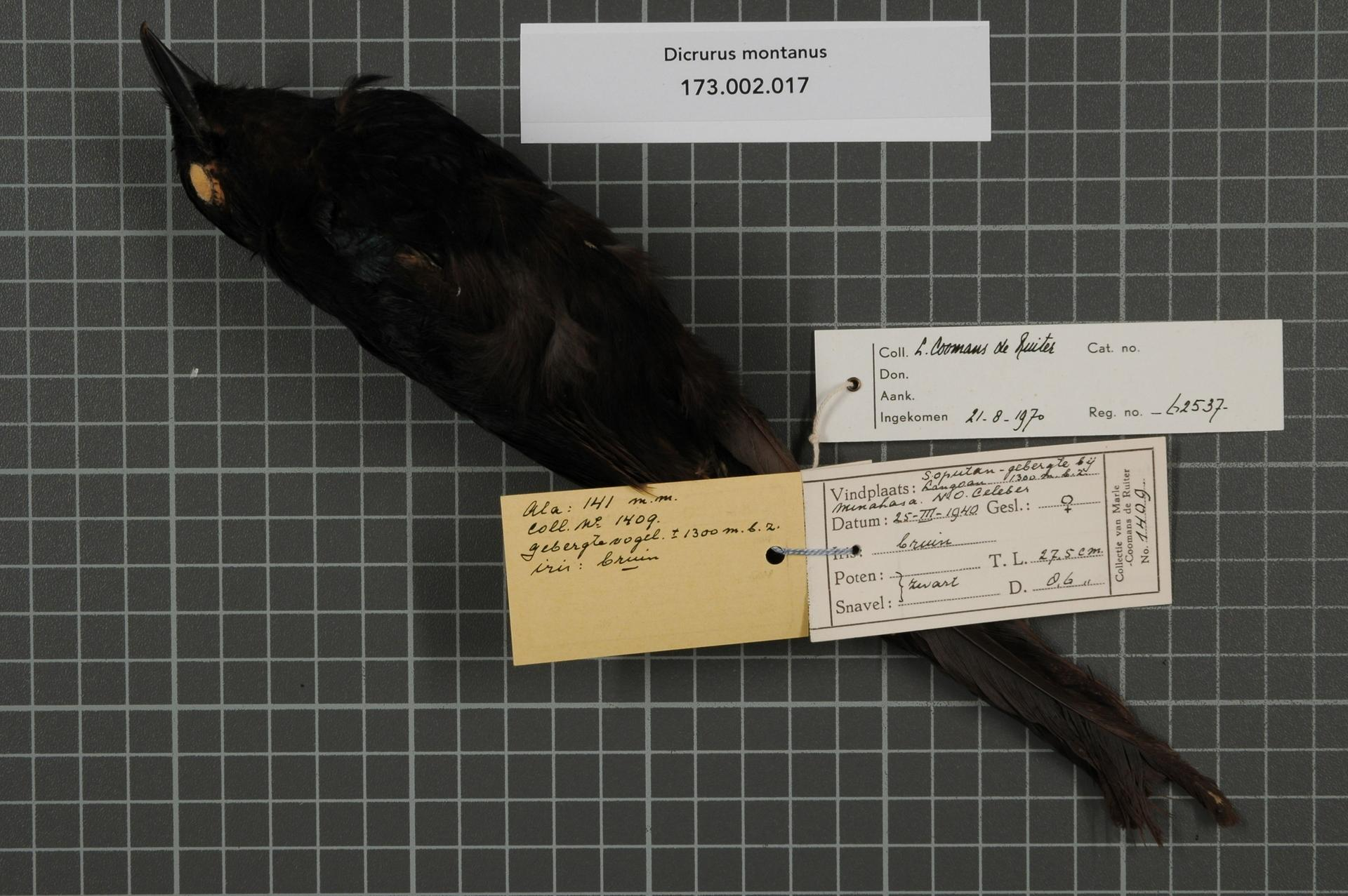 Dicrurus montanus (Riley, 1919)